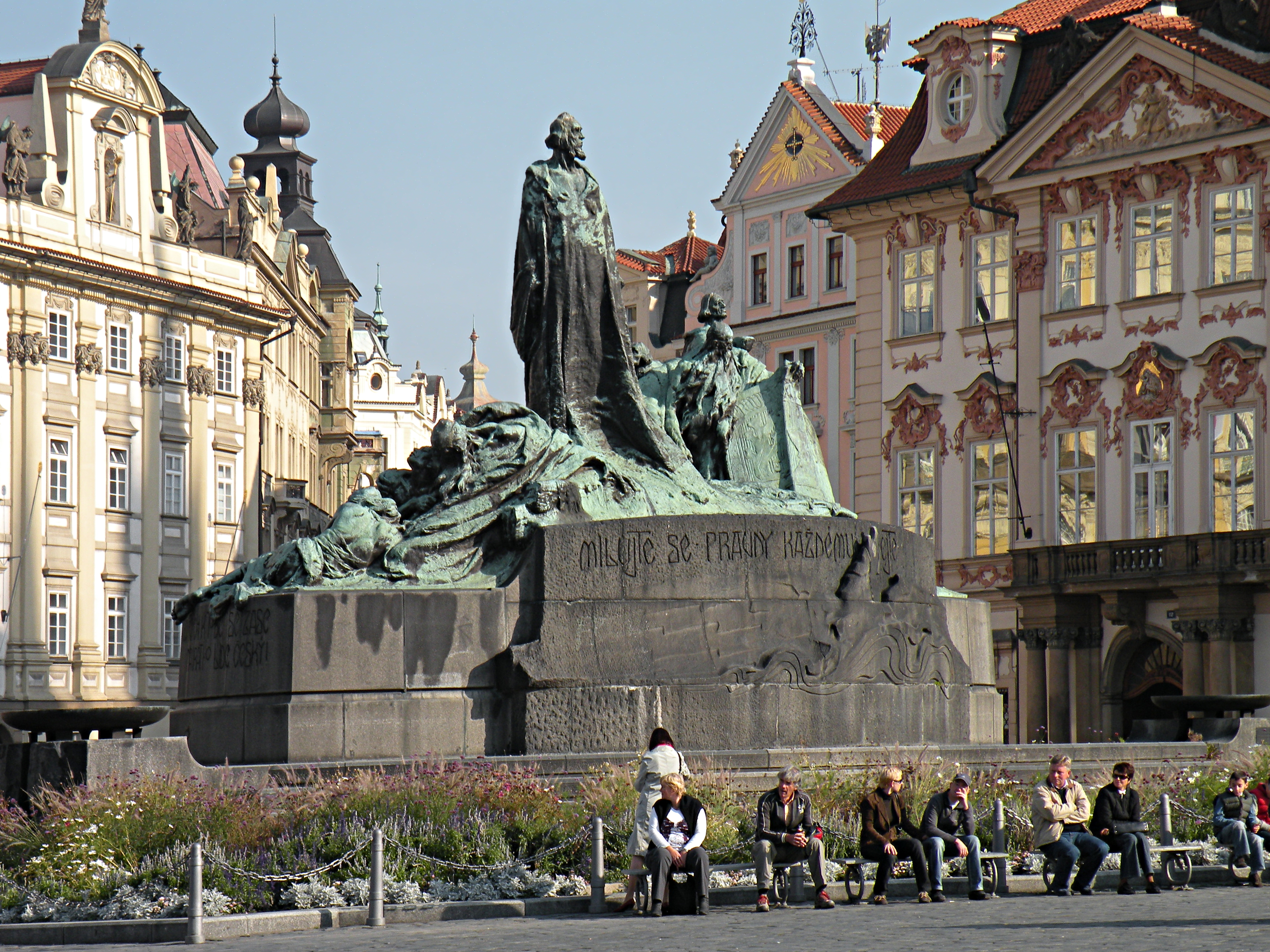 Jan Hus.Monument